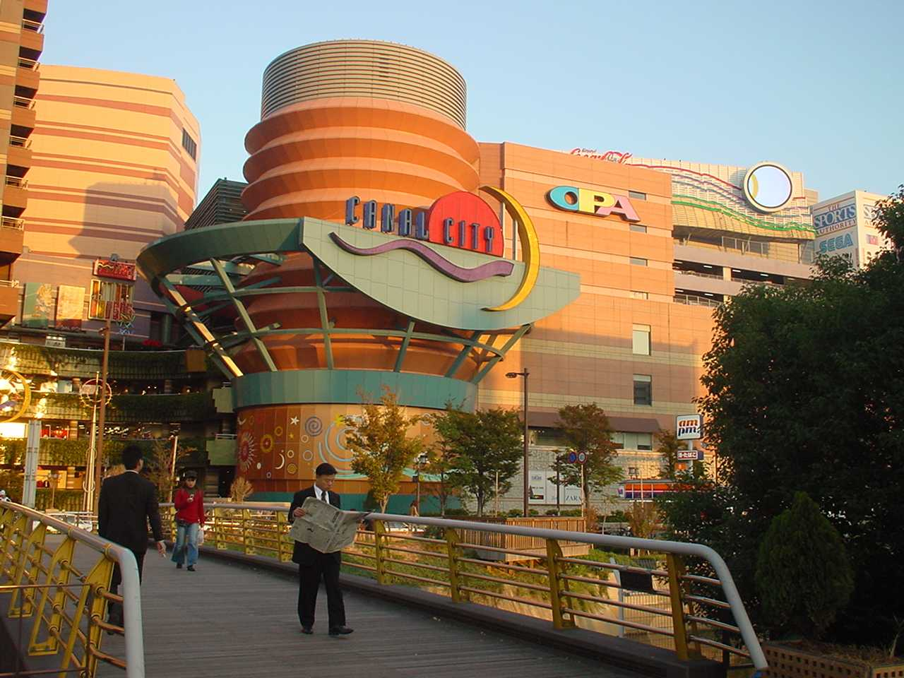 Canal City in Fukuoka.